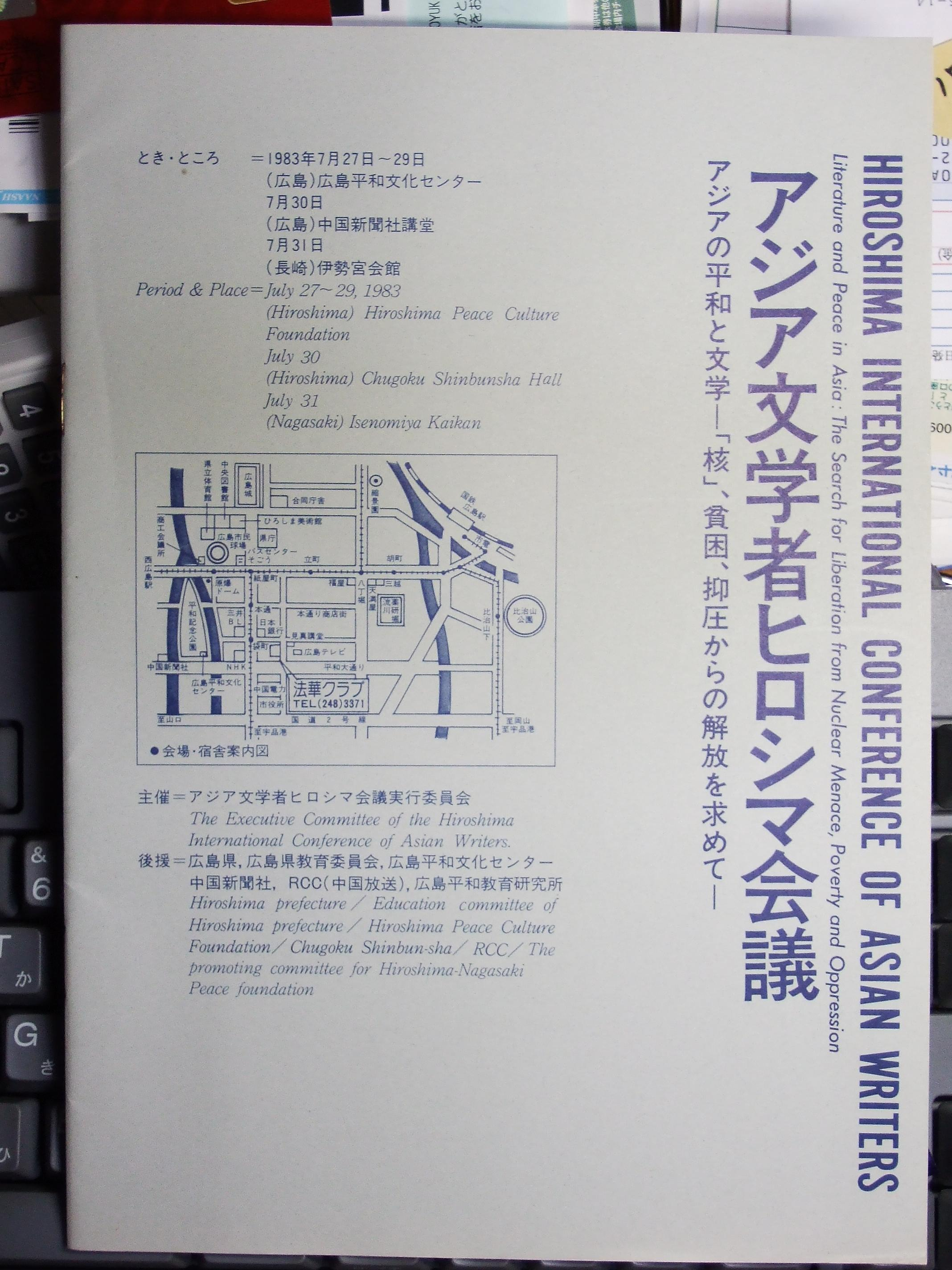 nihonnogenbakubungaku-4